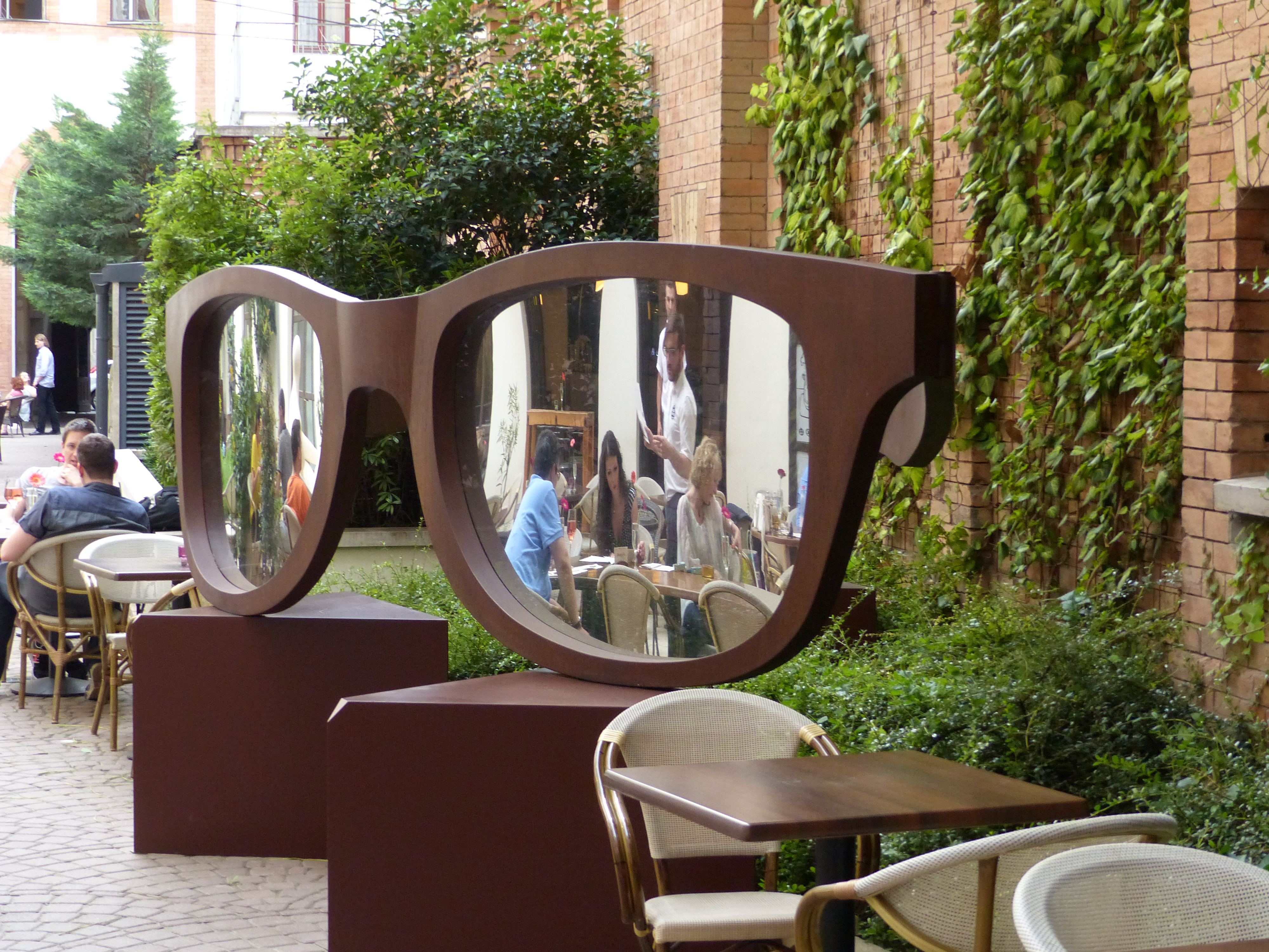 Taken on the 17th of June, 2016. Demo Day 2016 - Design Center. In Prezi HQ, Nagymező street 54-56, Budapest, Hungary.